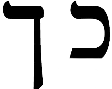 sofit caph and caph hebrew letter